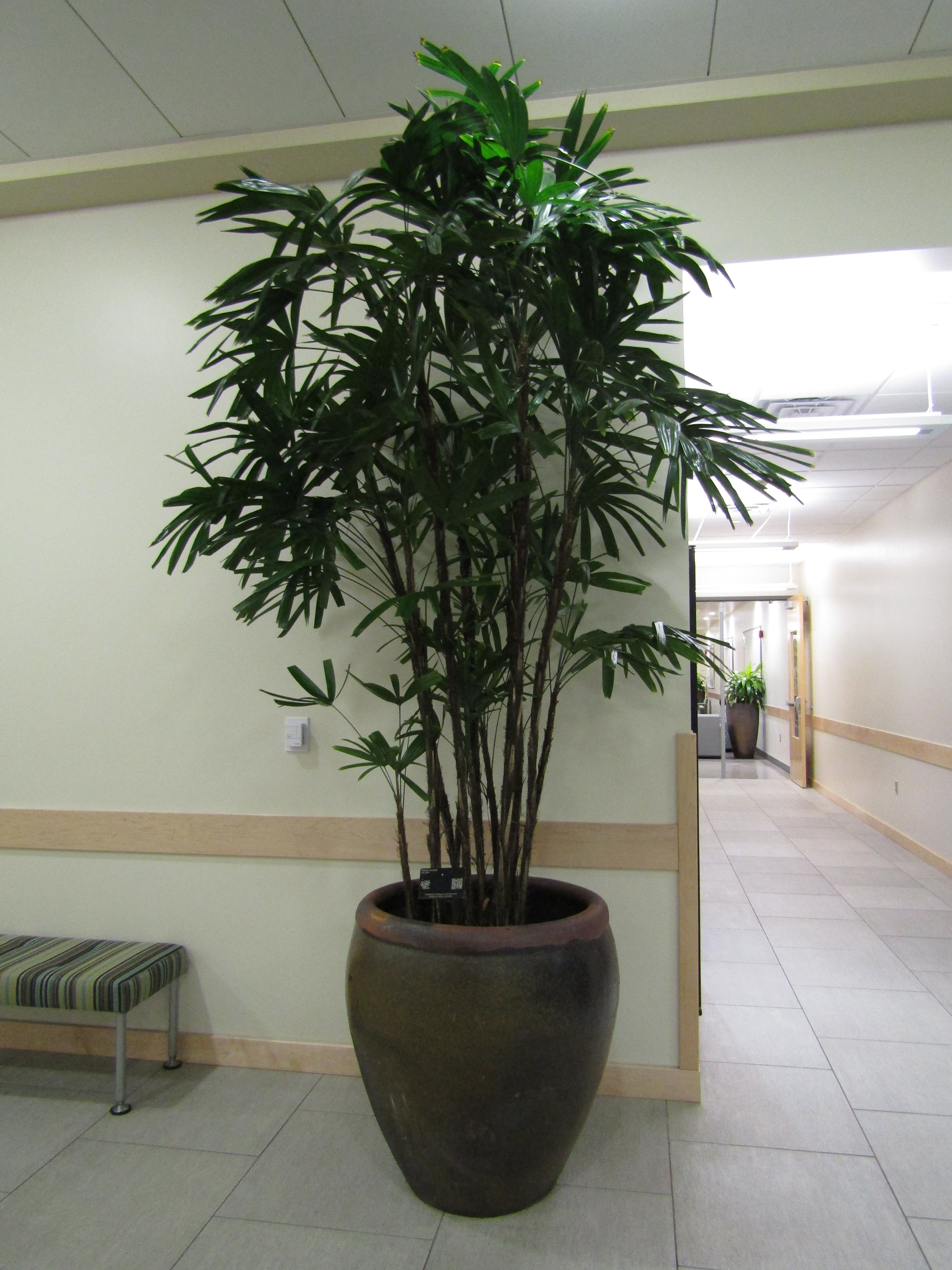 The lady palm at the Life Sciences Building, BYU.